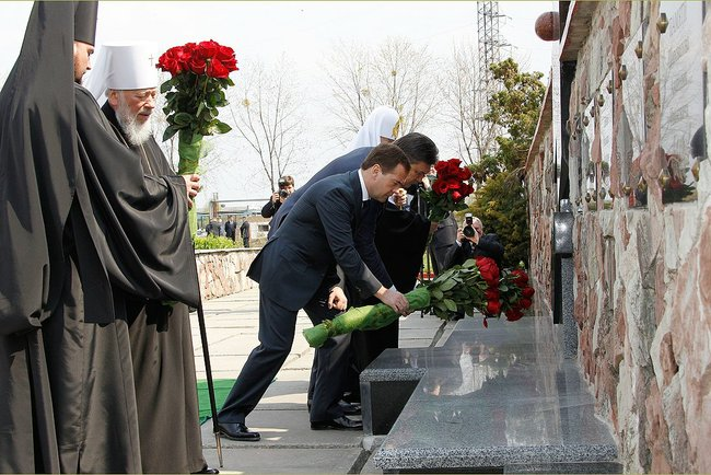 Dmitry Medvedev and President of Ukraine Viktor Yanukovych laid flowers at the memorial to the first victims of the Chernobyl disaster.